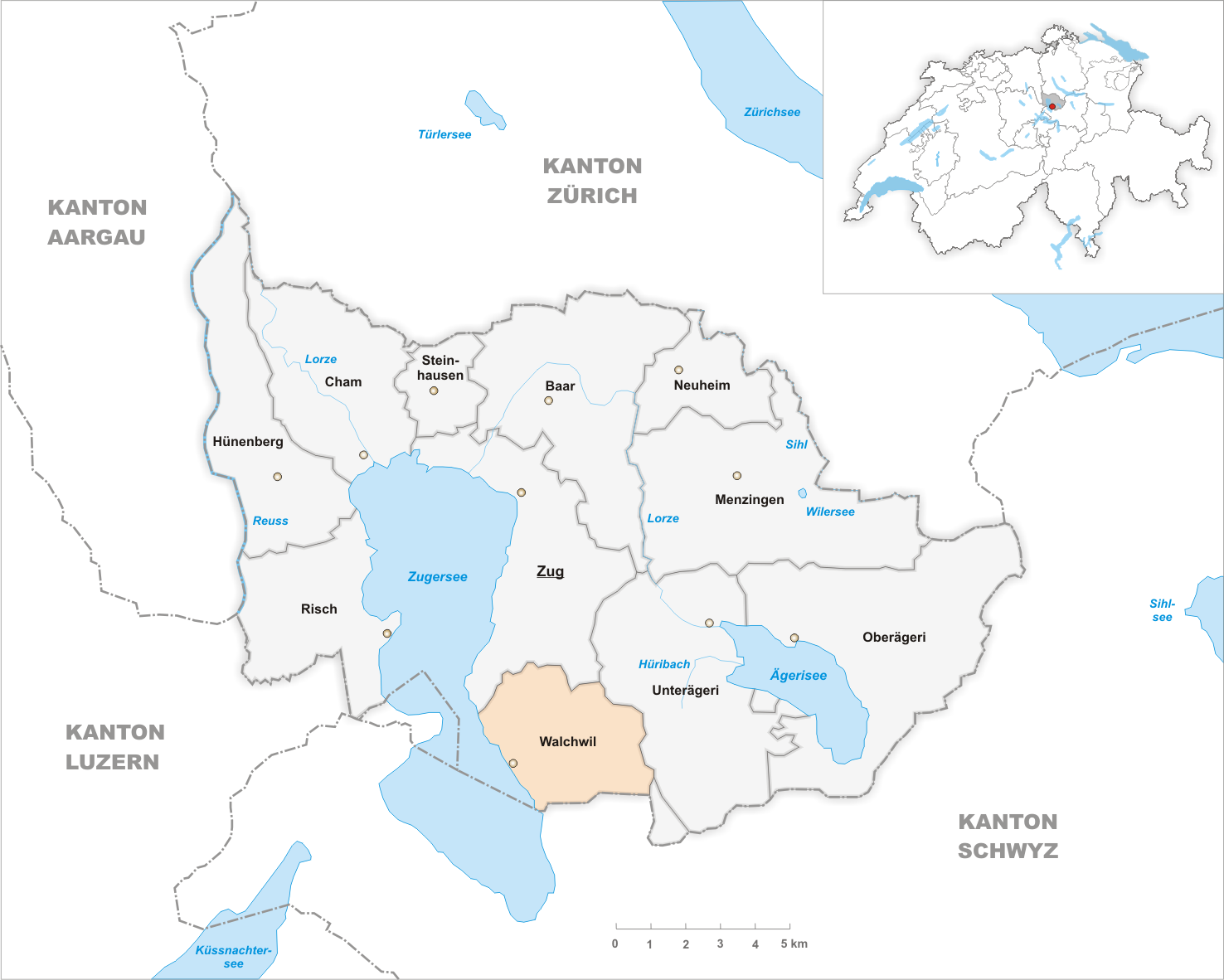 Municipality of Walchwil